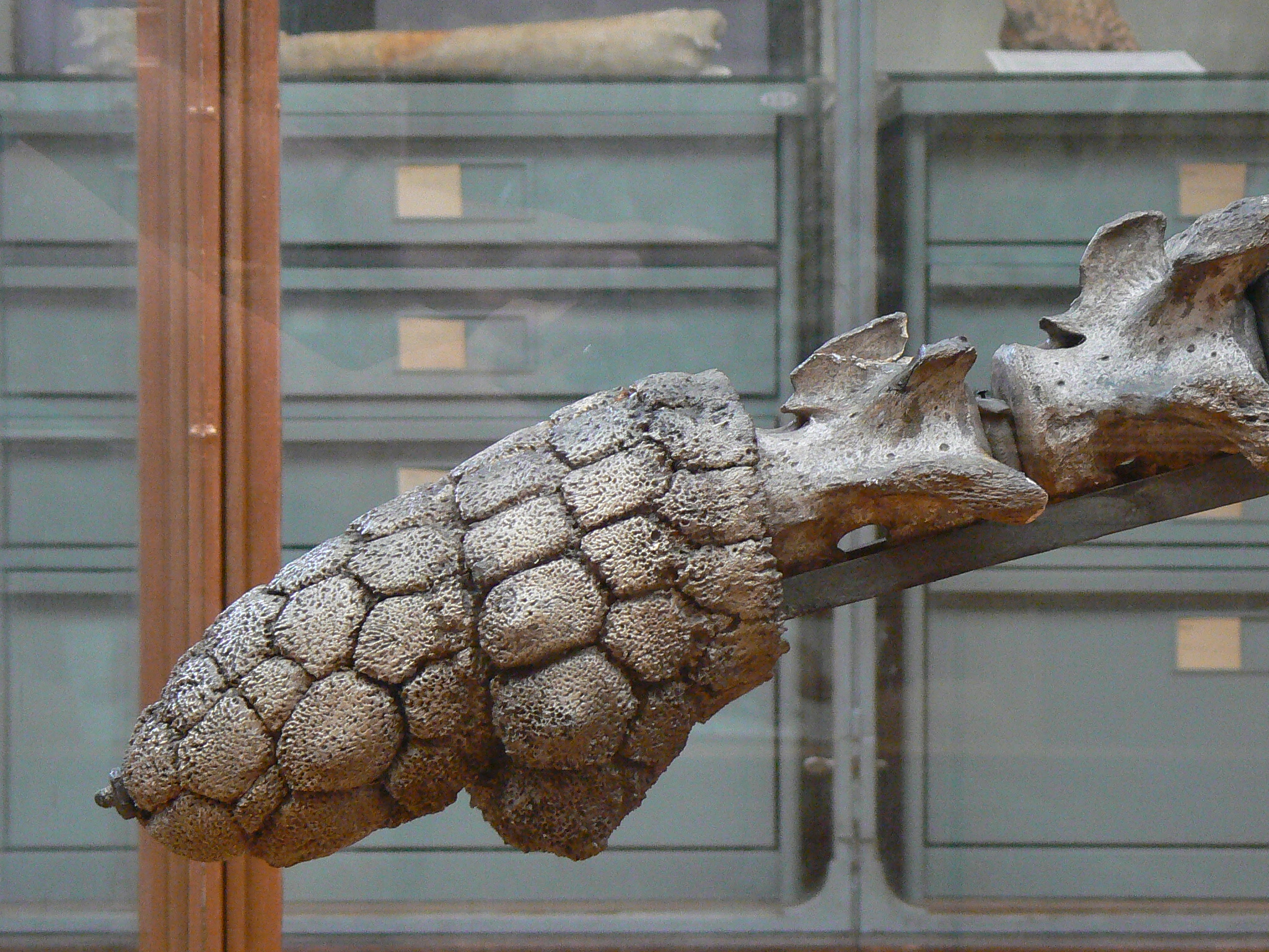 Glyptodon asper